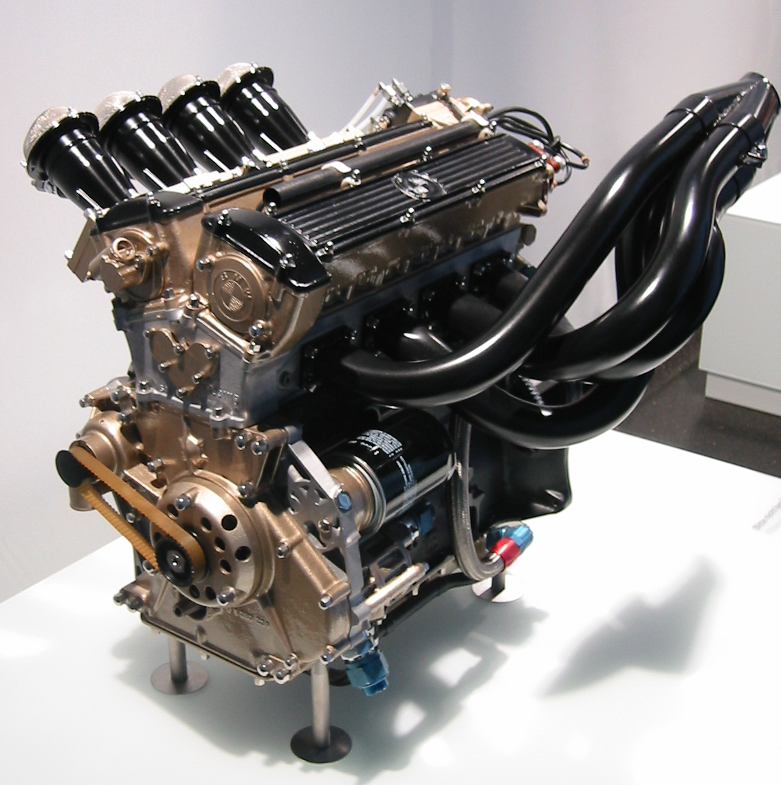 BMW Formula 2-Engine M12/7 at BMW-Museum Munich